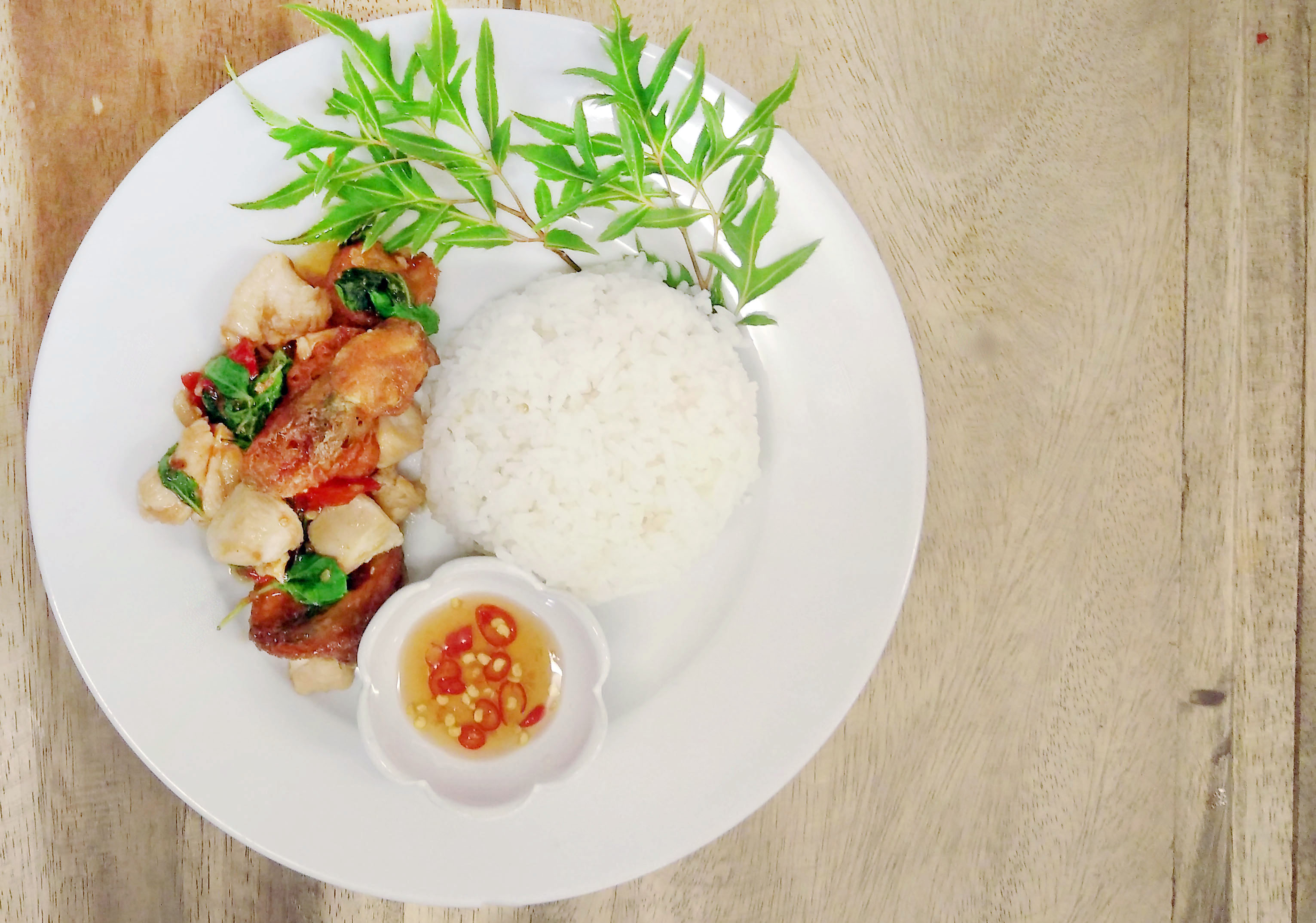 Brasil Fried with Chicken